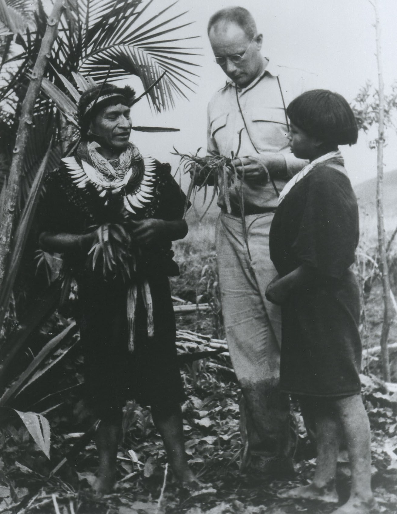 Dr. Richard Evan Schultes in the Amazon